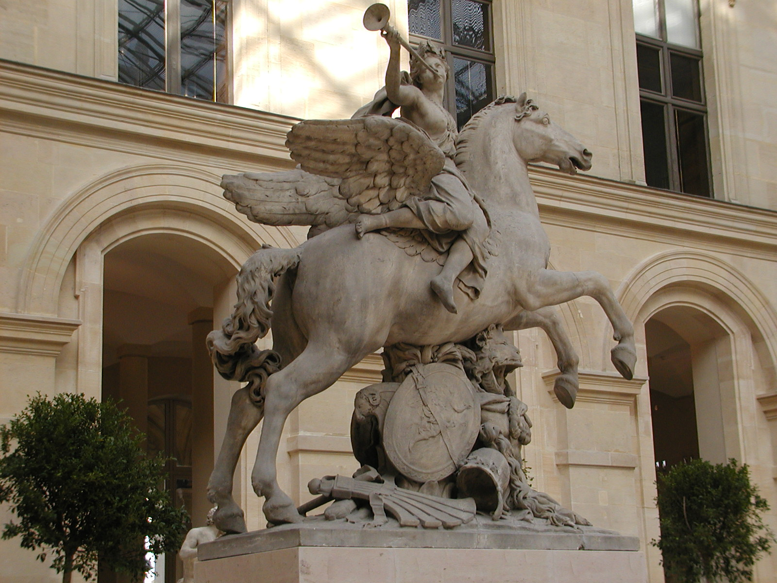 The King's fame riding Pegasus. Carrara marble, 1701-1702. Commissioned in 1699 for the decoration of the park of Marly, transfered in 1719 to the entrance to the Tuileries Gardens, replaced in 1986 by copies.